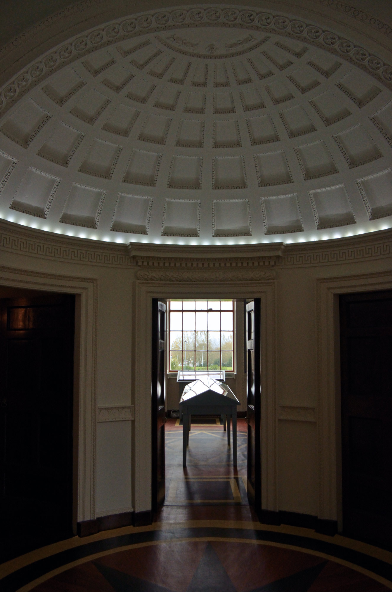 The vestibule